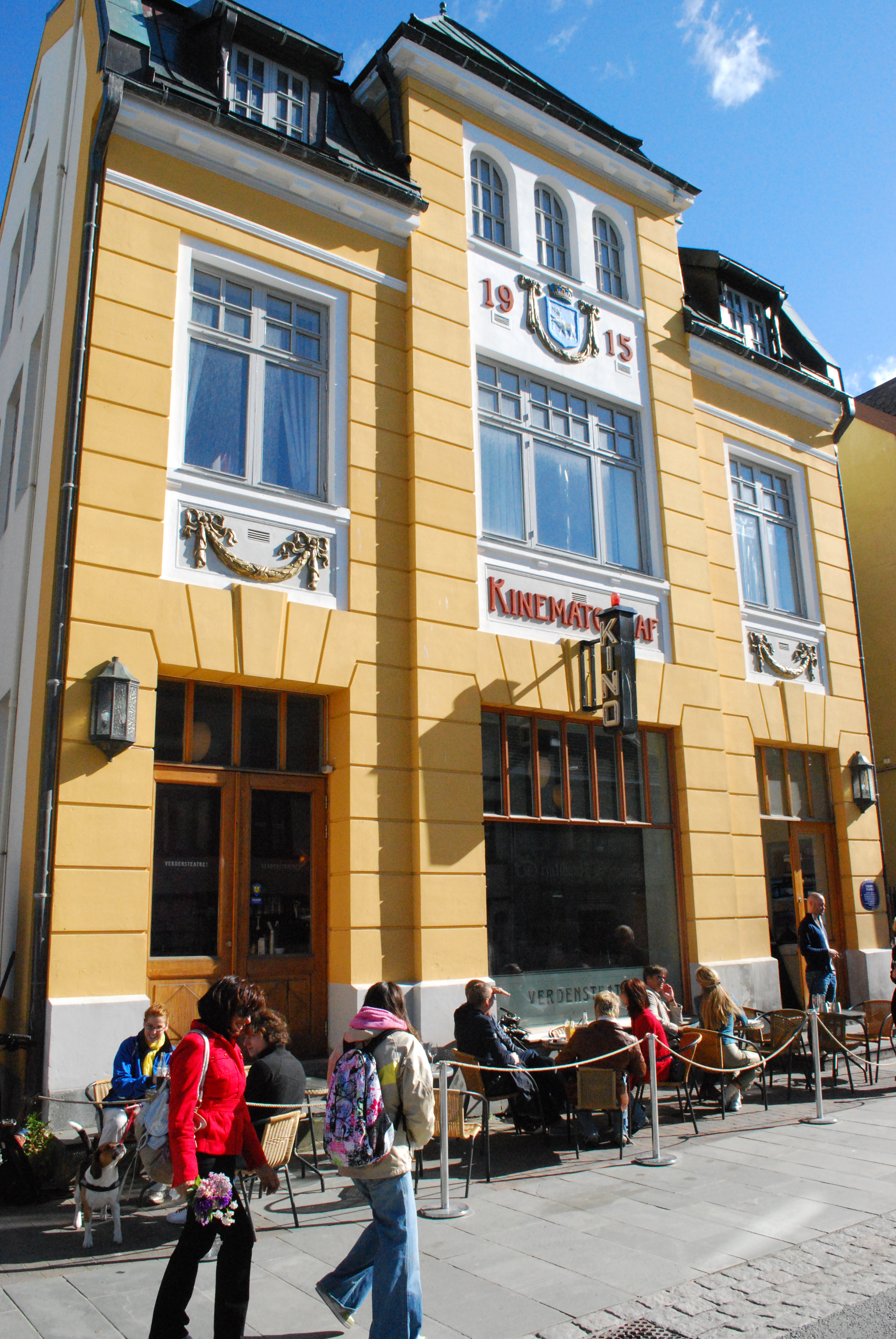 The oldest cinema of Northern Europe in continuous use, located in Tromsø, Norway